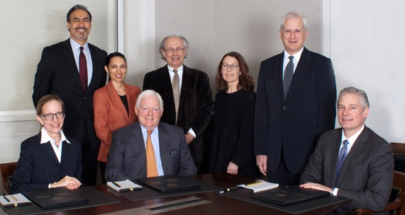 Member of the United States Commission of Fine Arts as of February 2013. Left to right: Elizabeth Plater-Zyberk, Vice-Chair; Philip G. Freelon; Teresita Fernández; Earl A. Powell III, Chair; Alex Krieger; Elizabeth K. Meyer; and Edwin Schlossberg. At far right is Thomas Luebke, the Secretary of the Commission (a staff member and chief executive officer of the agency).